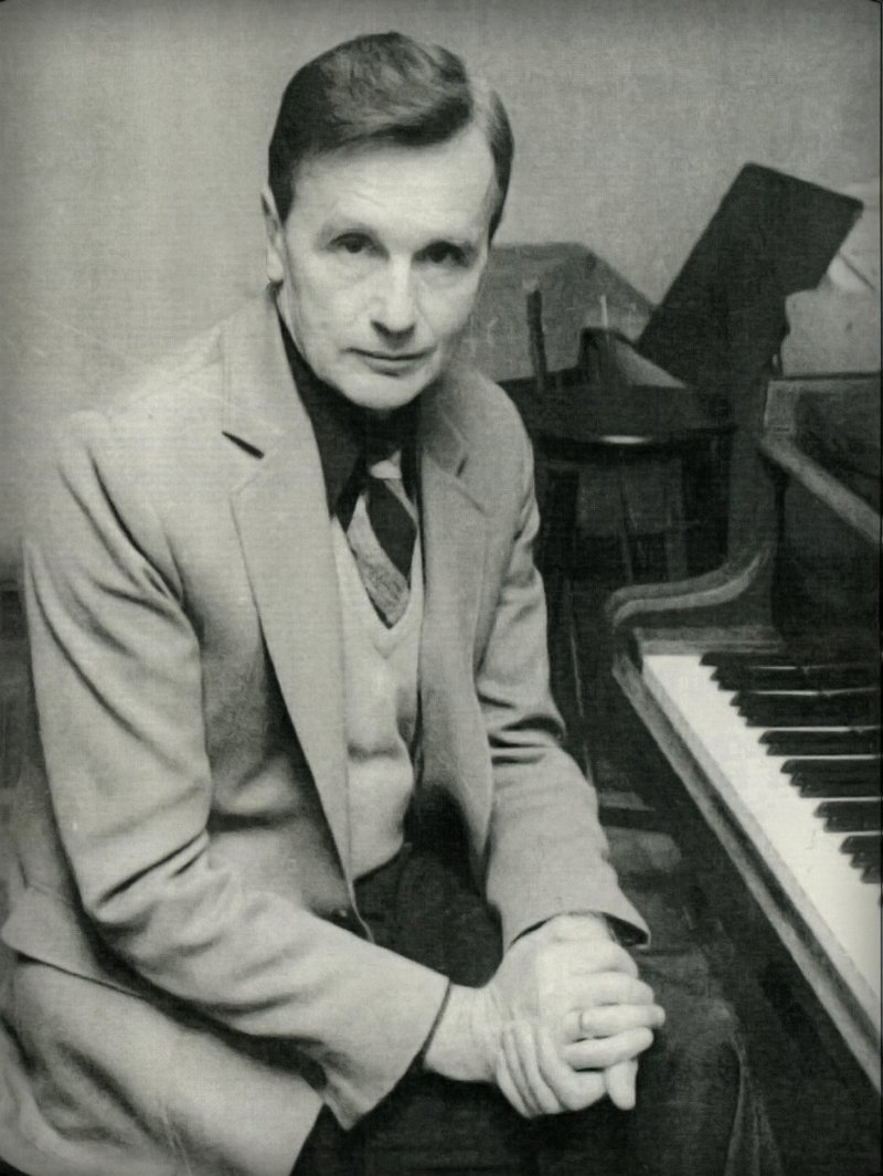 Polski